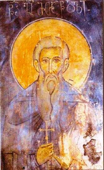 The 11th-century Georgian churchman George of Athos. A fresco with asomtavruli Georgian letters from the Akhtala monastery (now Armenia)